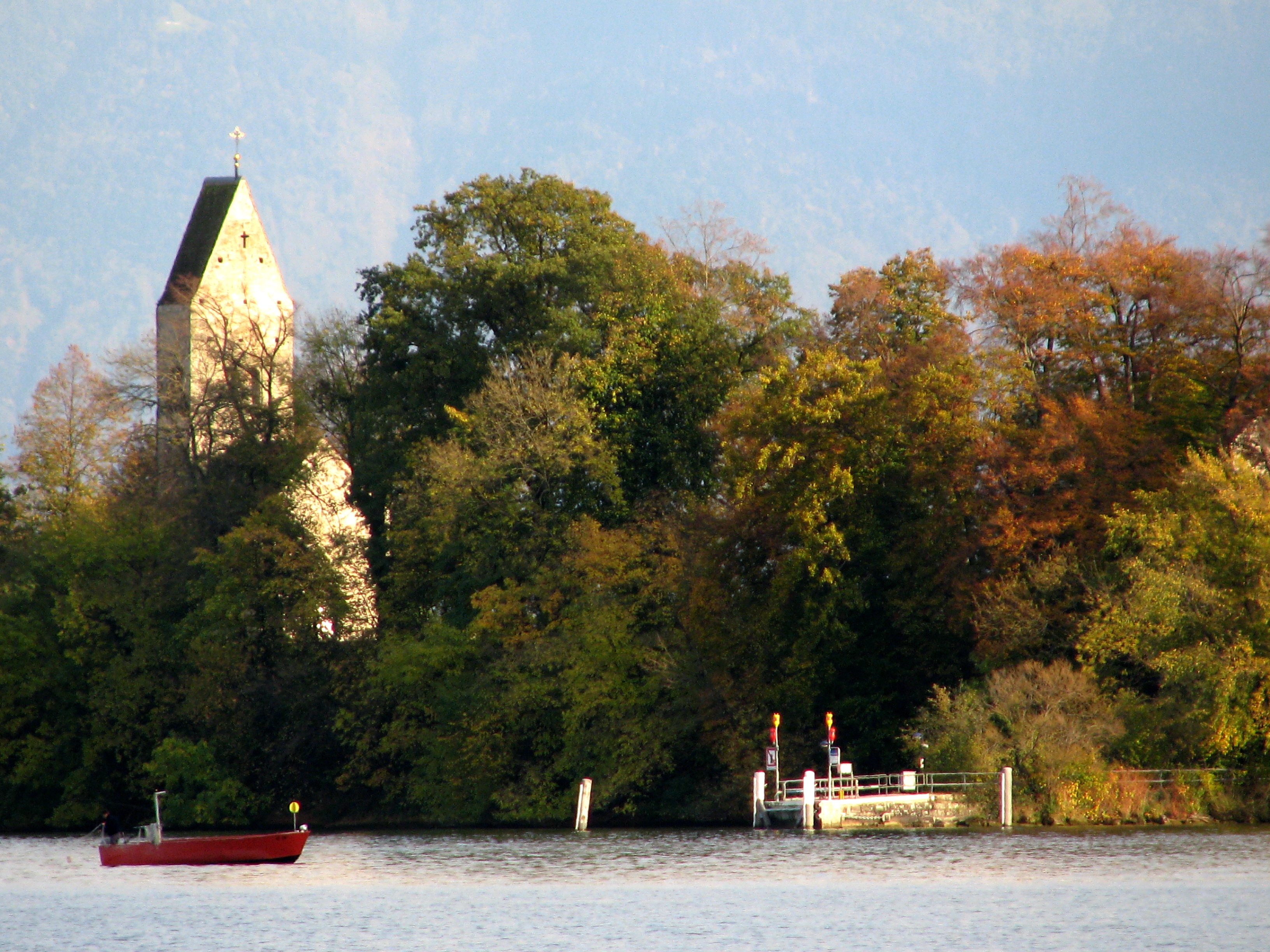 Lake Zürich : Ufenau island.